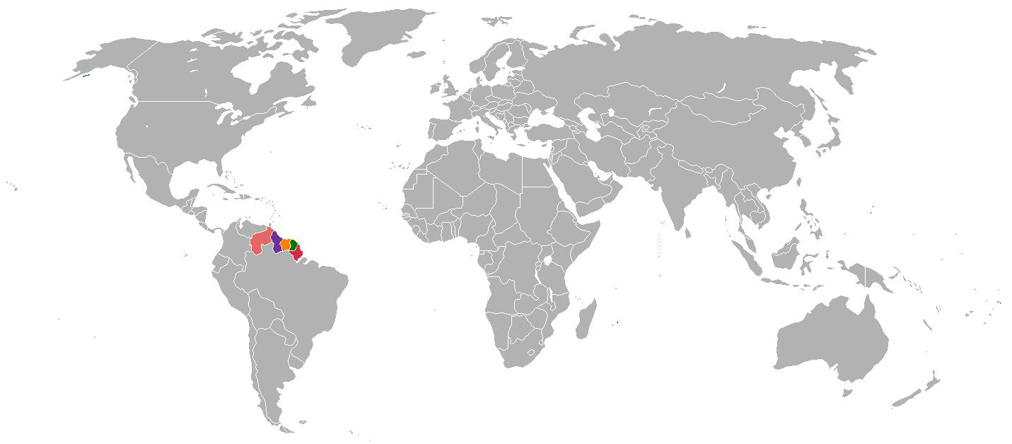 The 5 Guianas on a world map.